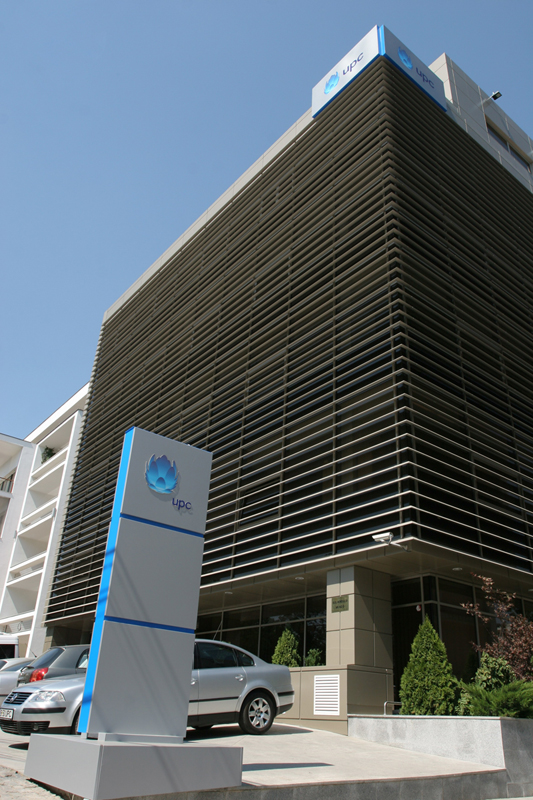 sediu UPC Romania